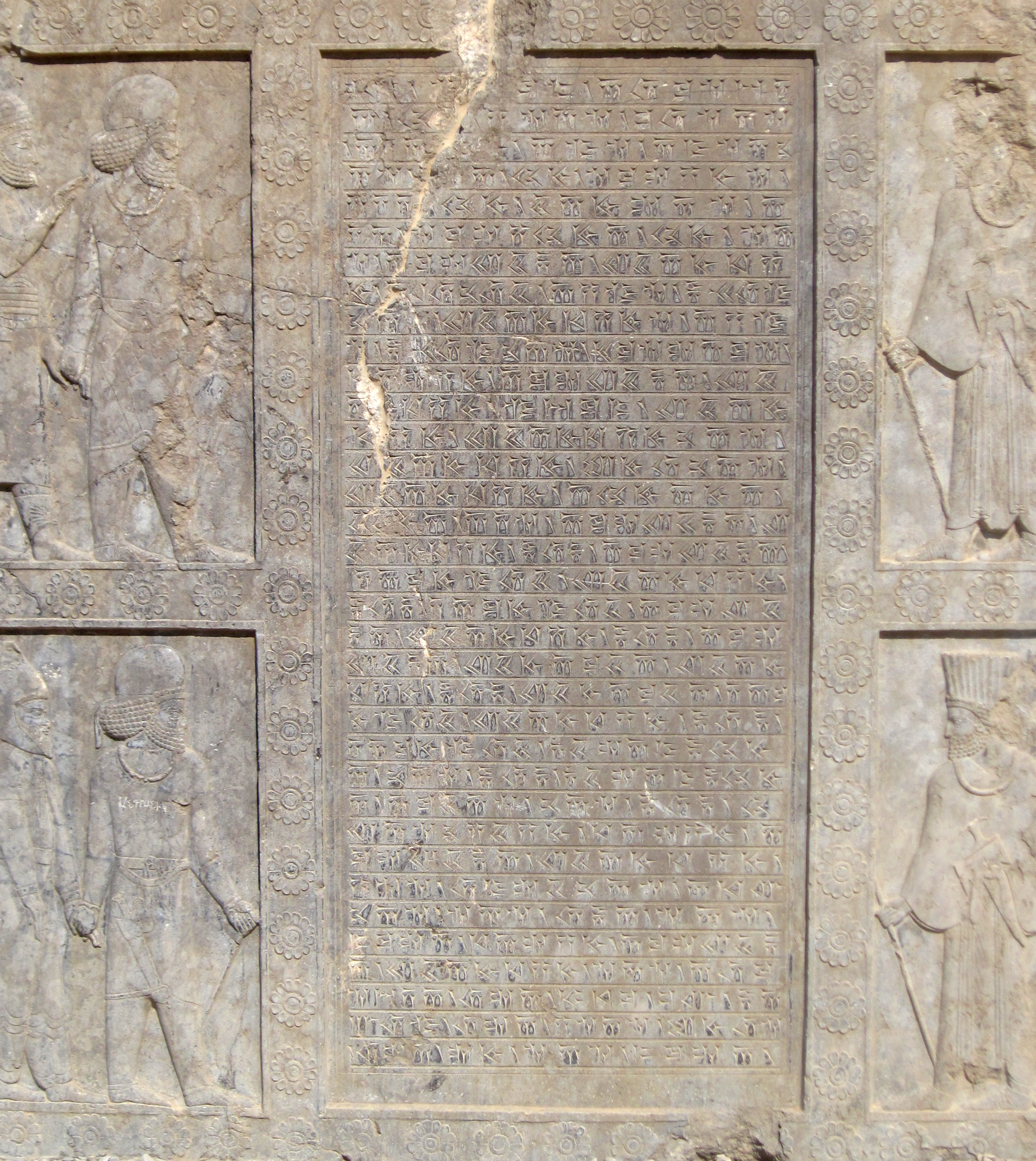 Artaxerxes III inscription, Tachar palace, Persepolis, Iran.